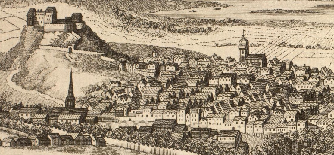 Detail from an engraving entitled "A General View of the City & Castle of Edinburgh, the Capital of Scotland"